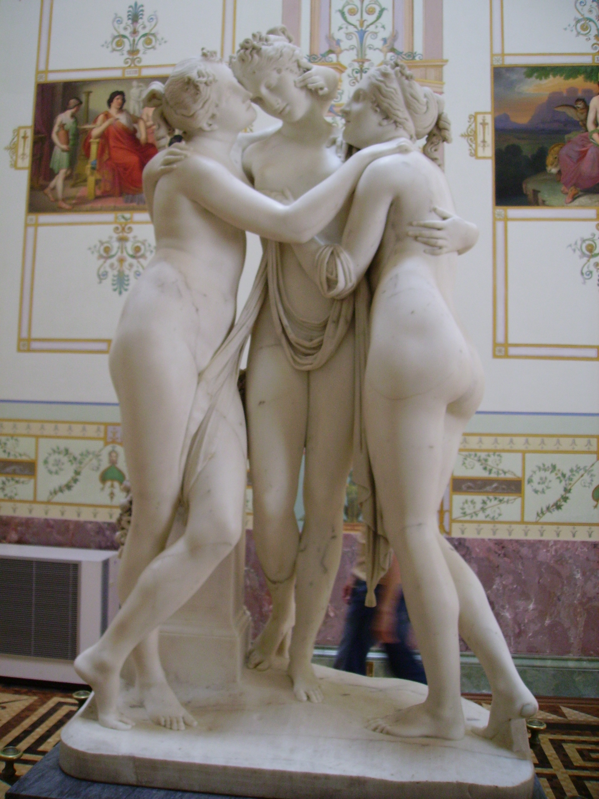 From the youngest to oldest the Graces were: Aglaea ("Beauty"), Euphrosyne ("Good Cheer"), and Thalia ("Festivities"). Also known as the Charites (Greek Mythology name) or Gratiae by the Romans. They appear in many works of art, such as Boticelli's Primavera at the Uffizi gallery.